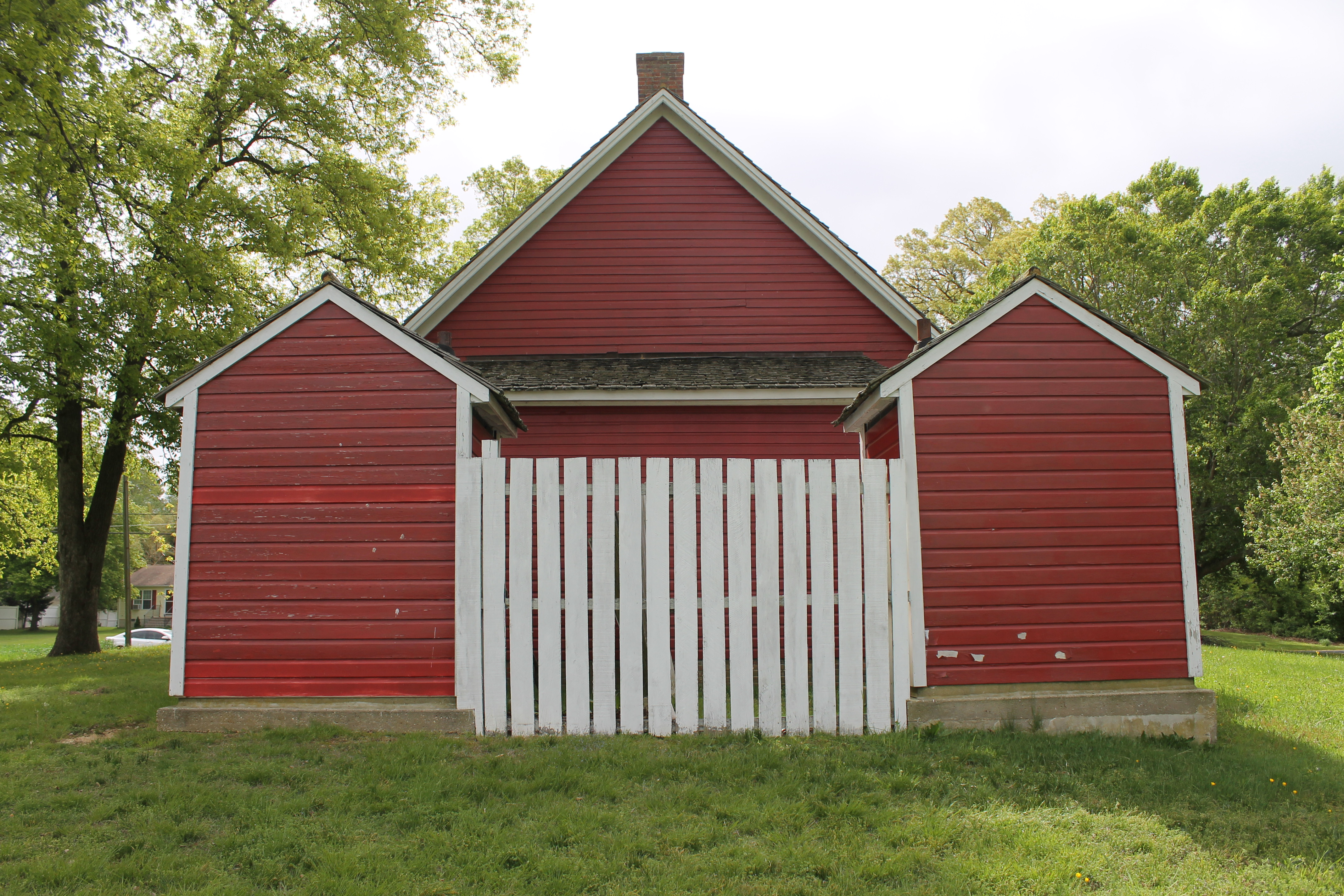 The back of Longwoods School House in Talbot County, Maryland.